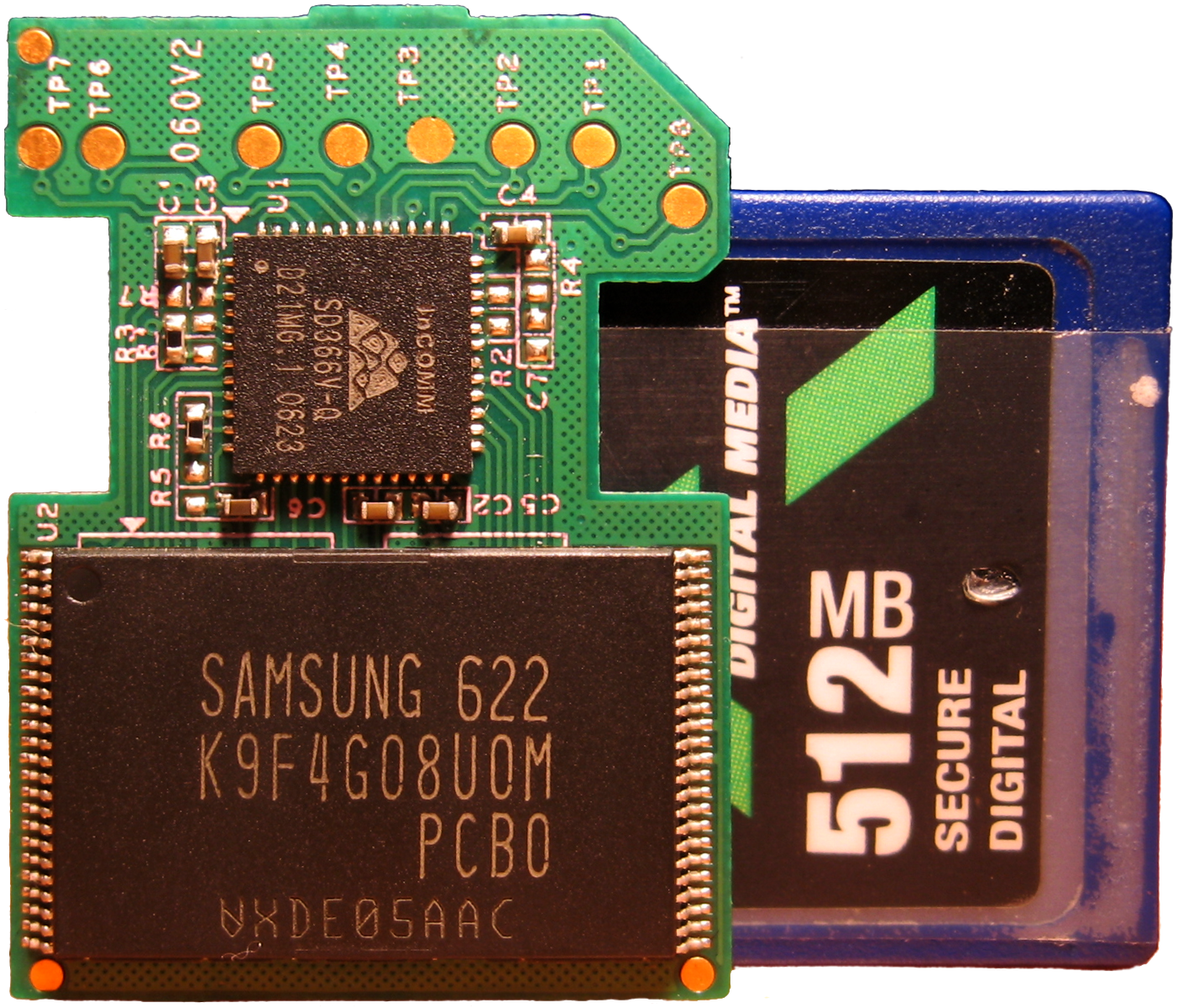 Digital Media SD Internals, 512MB. Updated using gimp and hugin: correct for barrel distorsion, removed the background and set it to transparent, removed remaining parts of background, cropped and adjusted levels.